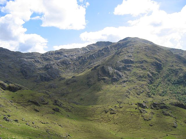 Northern slopes of Meall Buidhe Often hidden by rain and clouds, like the day I climbed this hill, the craggy northern slopes of Meall Buidhe, seen from the path up the Mam Barrisdale.